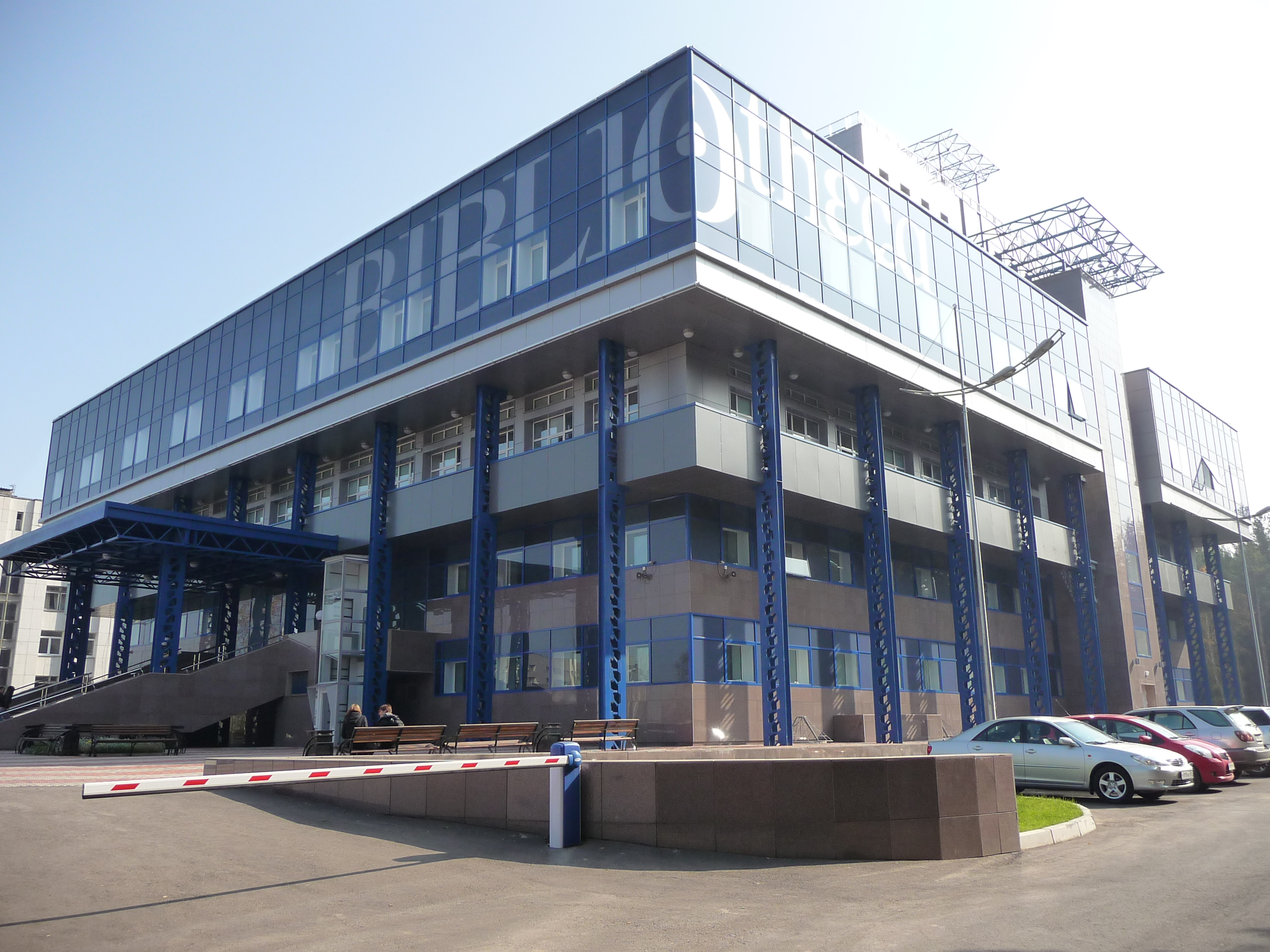 Library of Siberian Federal University, Russia